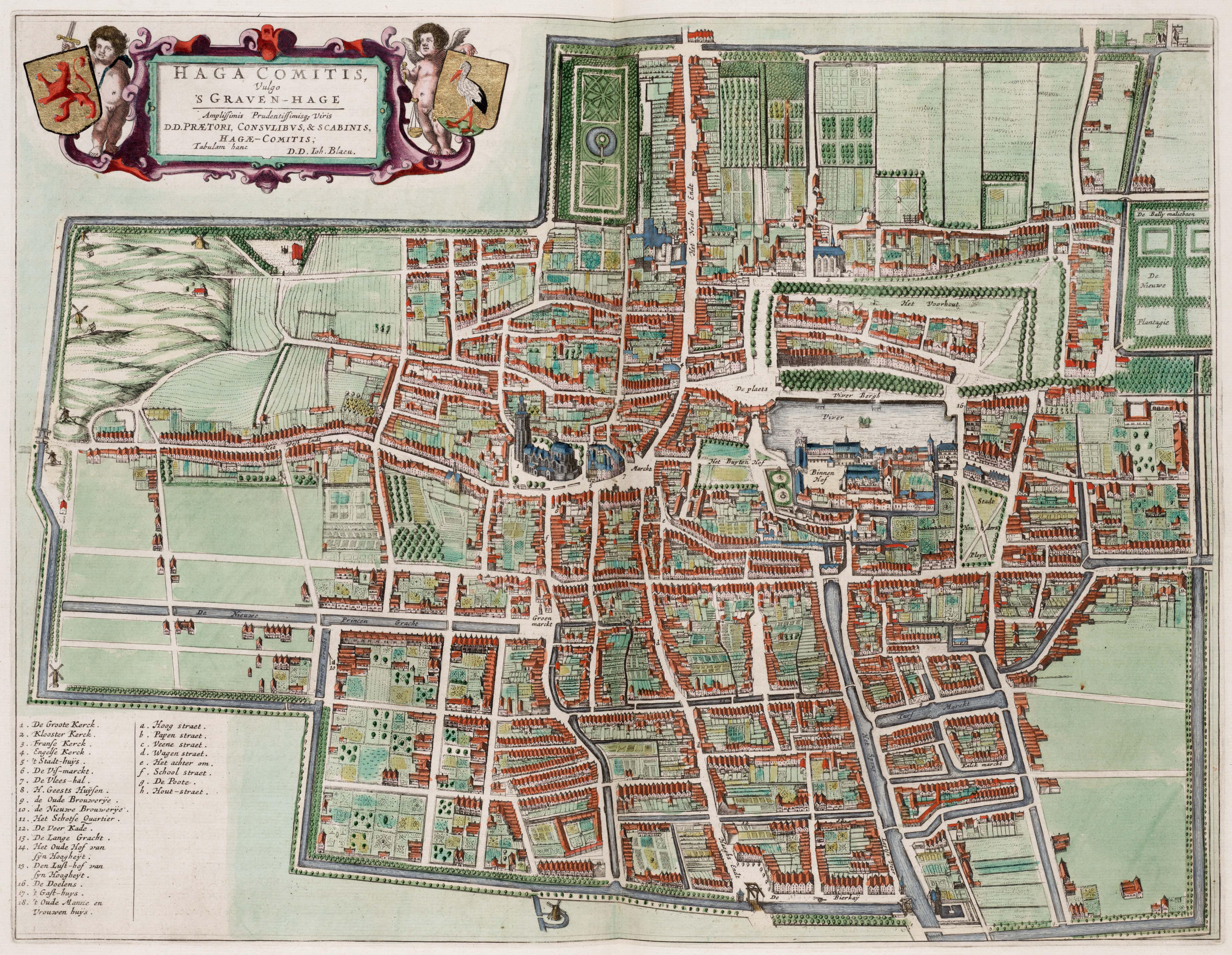 Map of Den Haag